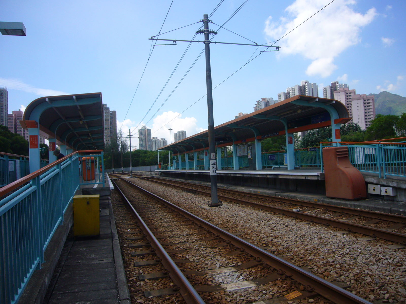 LRT Fung Tei Stop, MTR HK